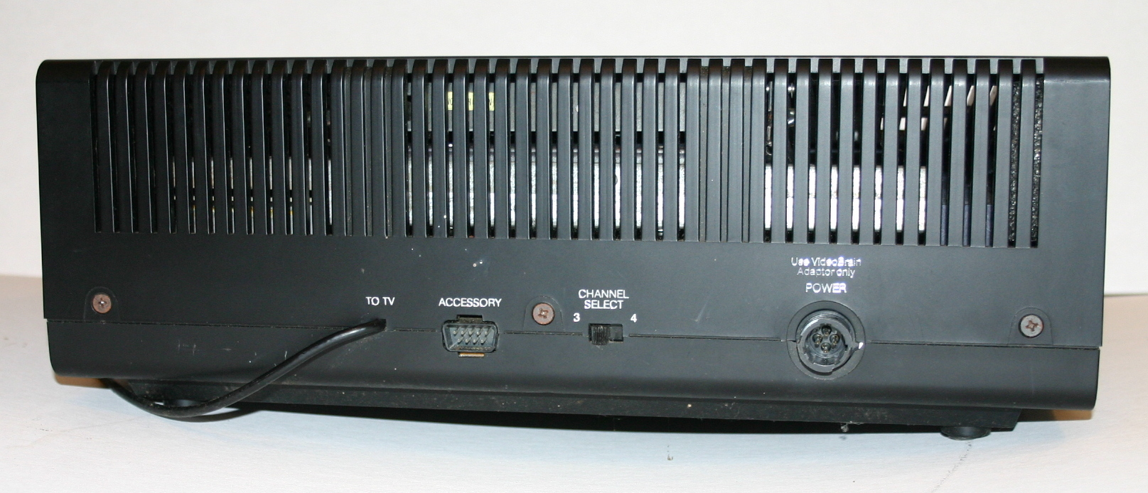 This is the back side of a VideoBrain Computer, manufactured by Umtech. It shows the cable going to the RV, the cable going to the TV for display, the channel selector switch, and the connection for the power adapter